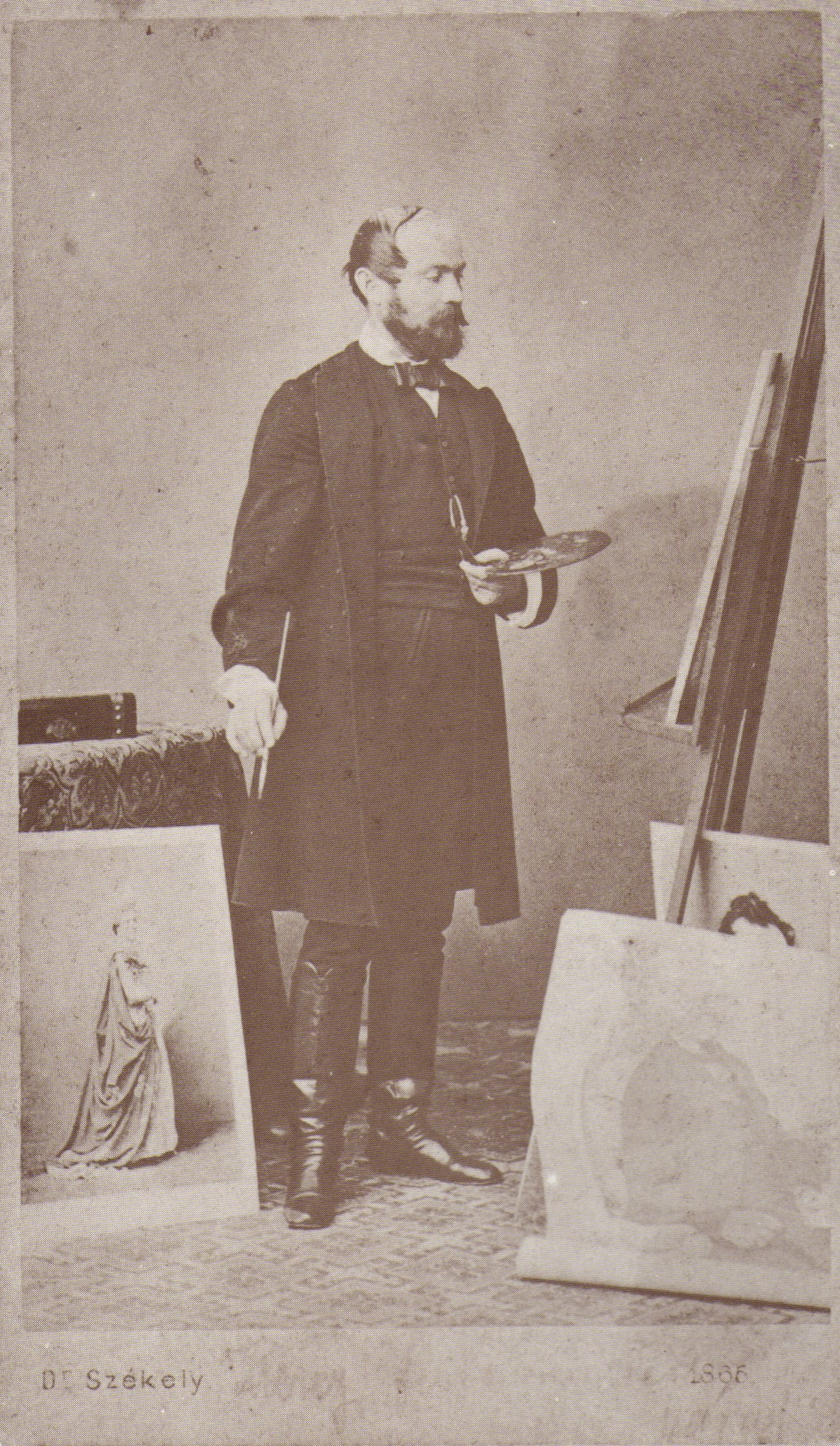 Photograph by Székely, 1864. Wien.